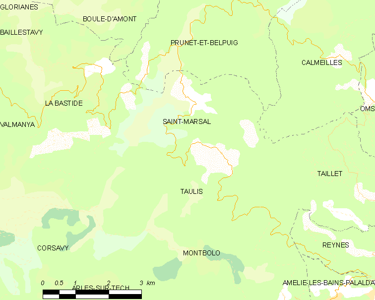 Map of French municipality